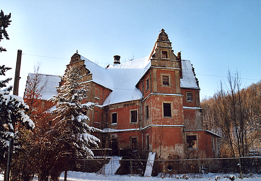 This image shows Rottwerndorf castle in Pirna in Saxony, Germany.